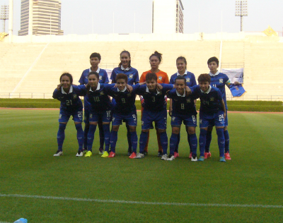 Thai women's national team